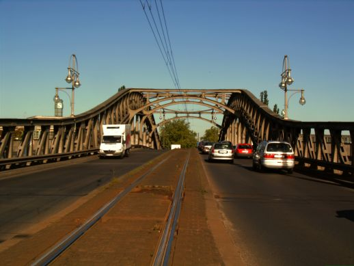 Böse Bridge in Berlin, tramway track